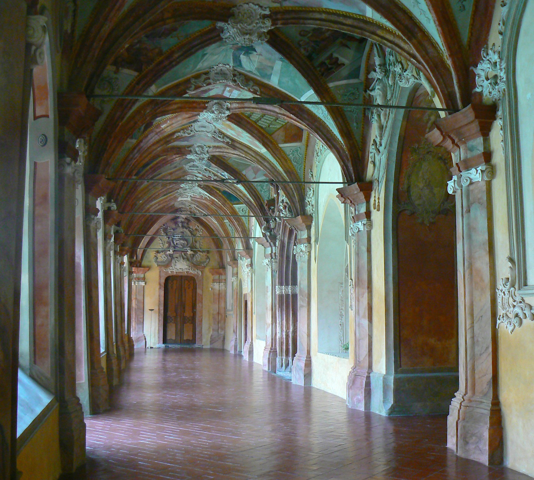 Cloister in Zlatá Koruna monastery, Czech Republic